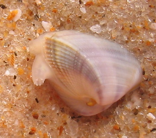 Concha Bivalvia / Bivalve shell